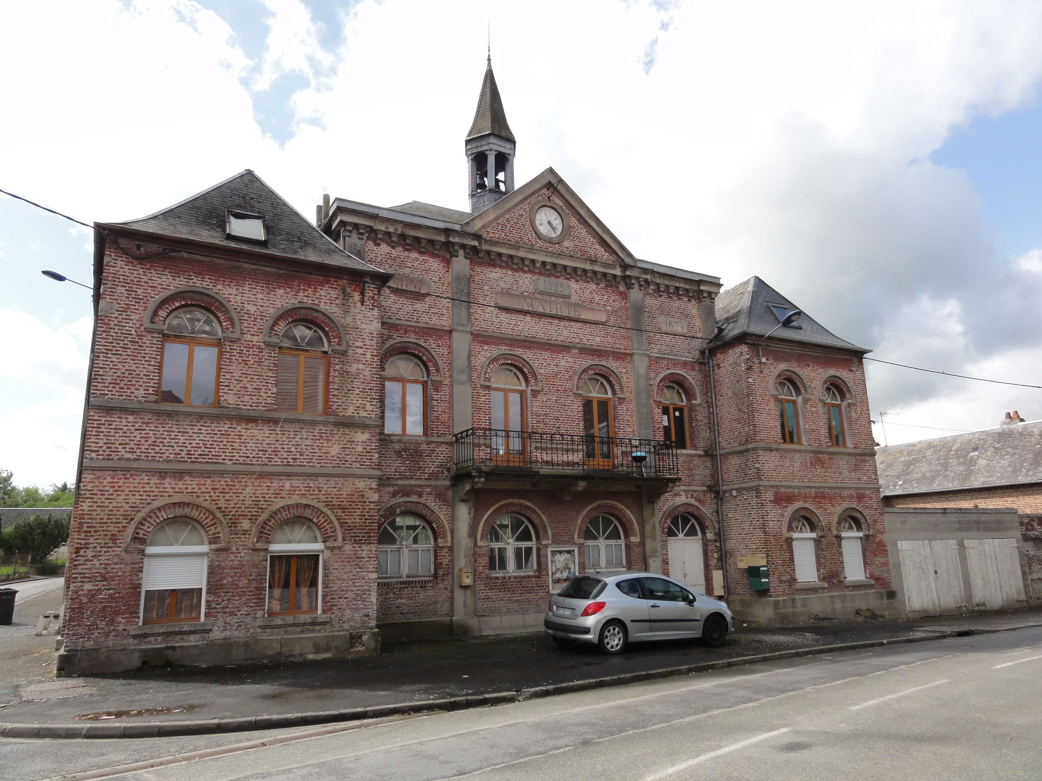 Brissy-Hamégicourt (Aisne) ancienne mairie d'Hamégicourt